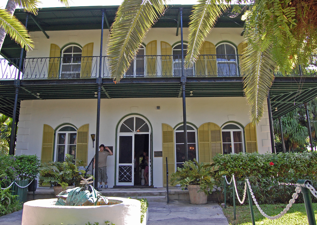 Ernest Hemingway House, Key West, FL. May 2009 by James Willamor.